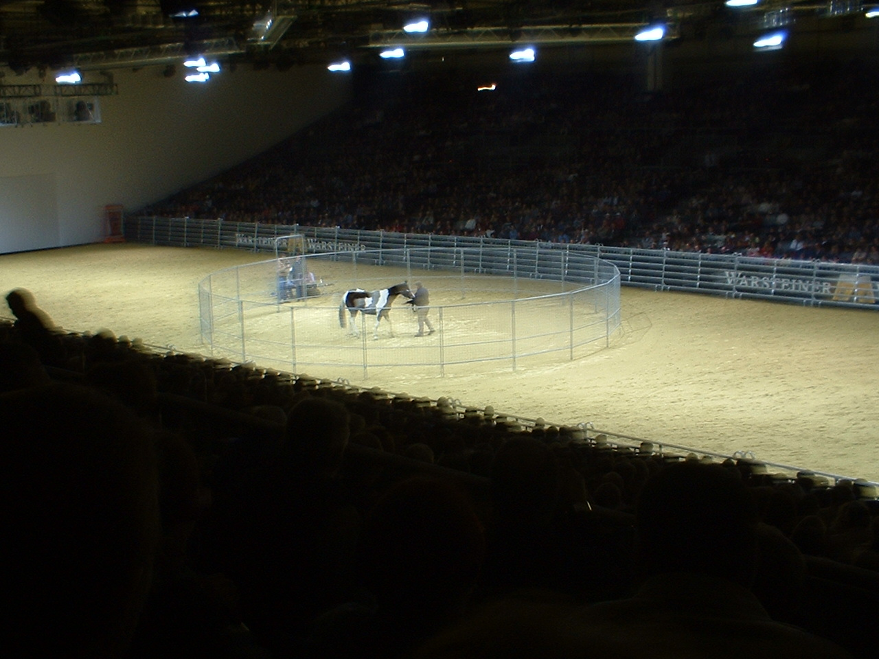 Monty Roberts at Equitana, Germany